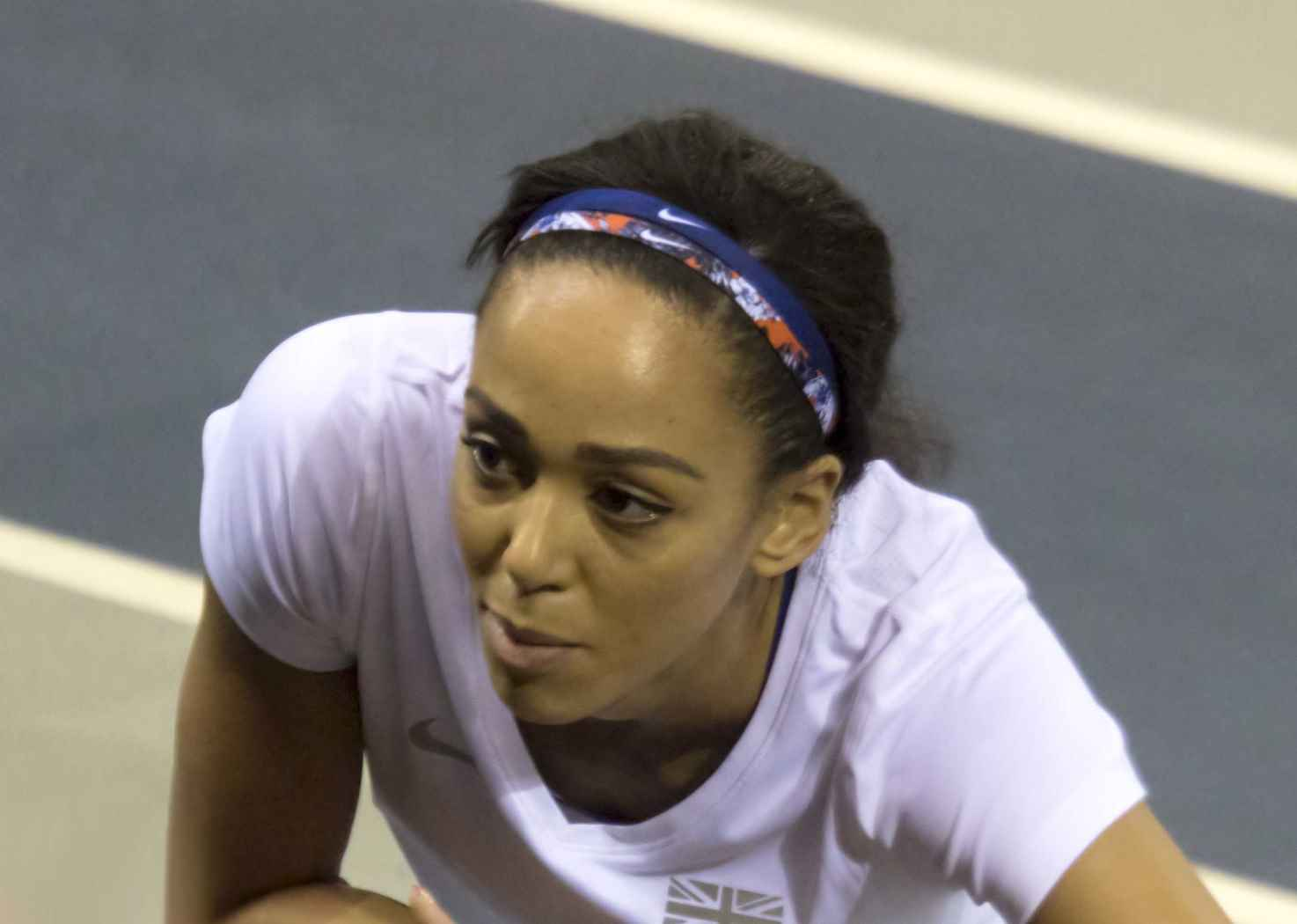 KJT at the 2019 EiCH at Glasgow